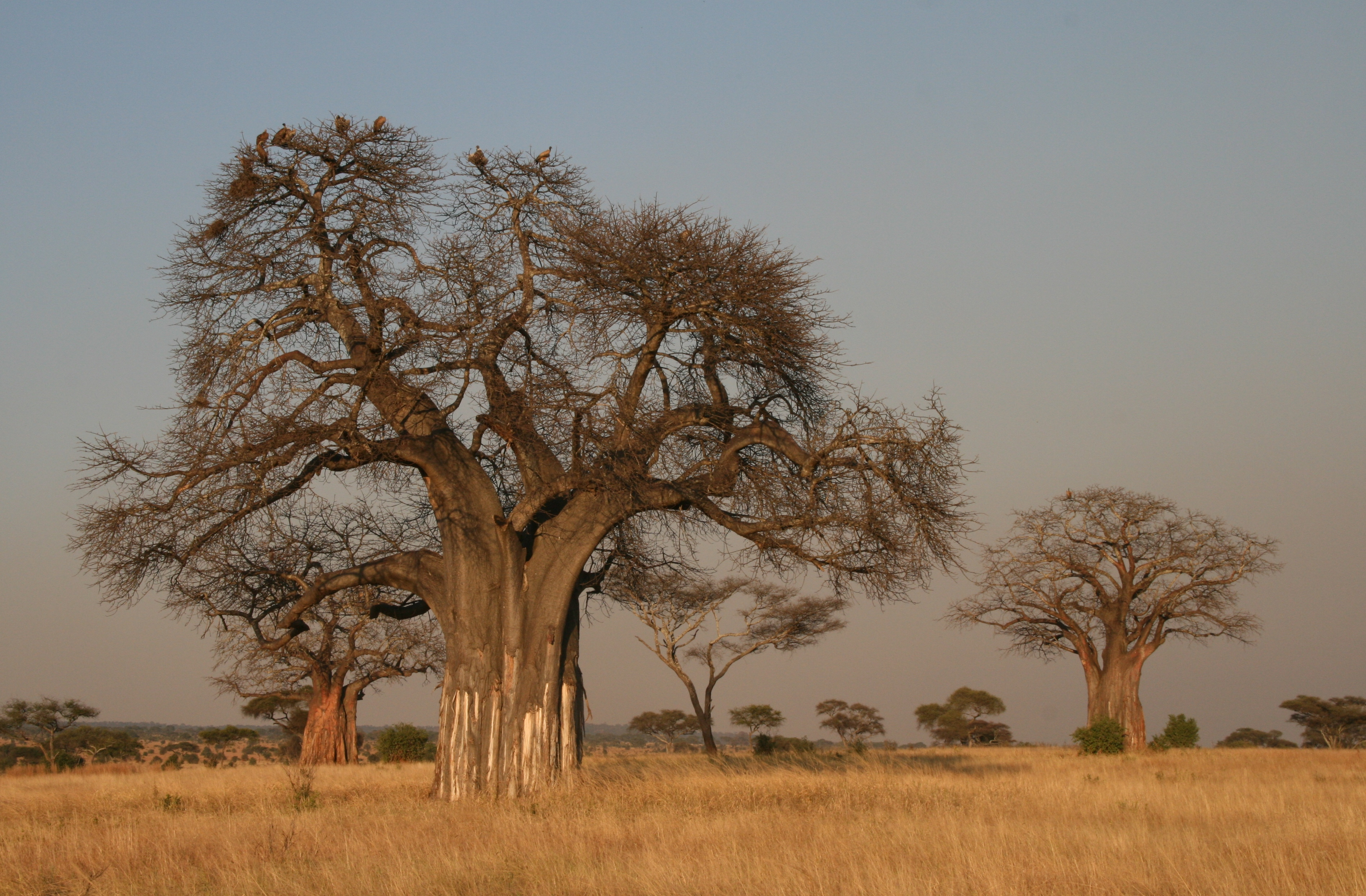 A Baobab tree, Adansonia digitata, in the Sahel sub-Saharan savanna, in Tanzania. picture taken at Tarangire Nationalpark, Tanzania.